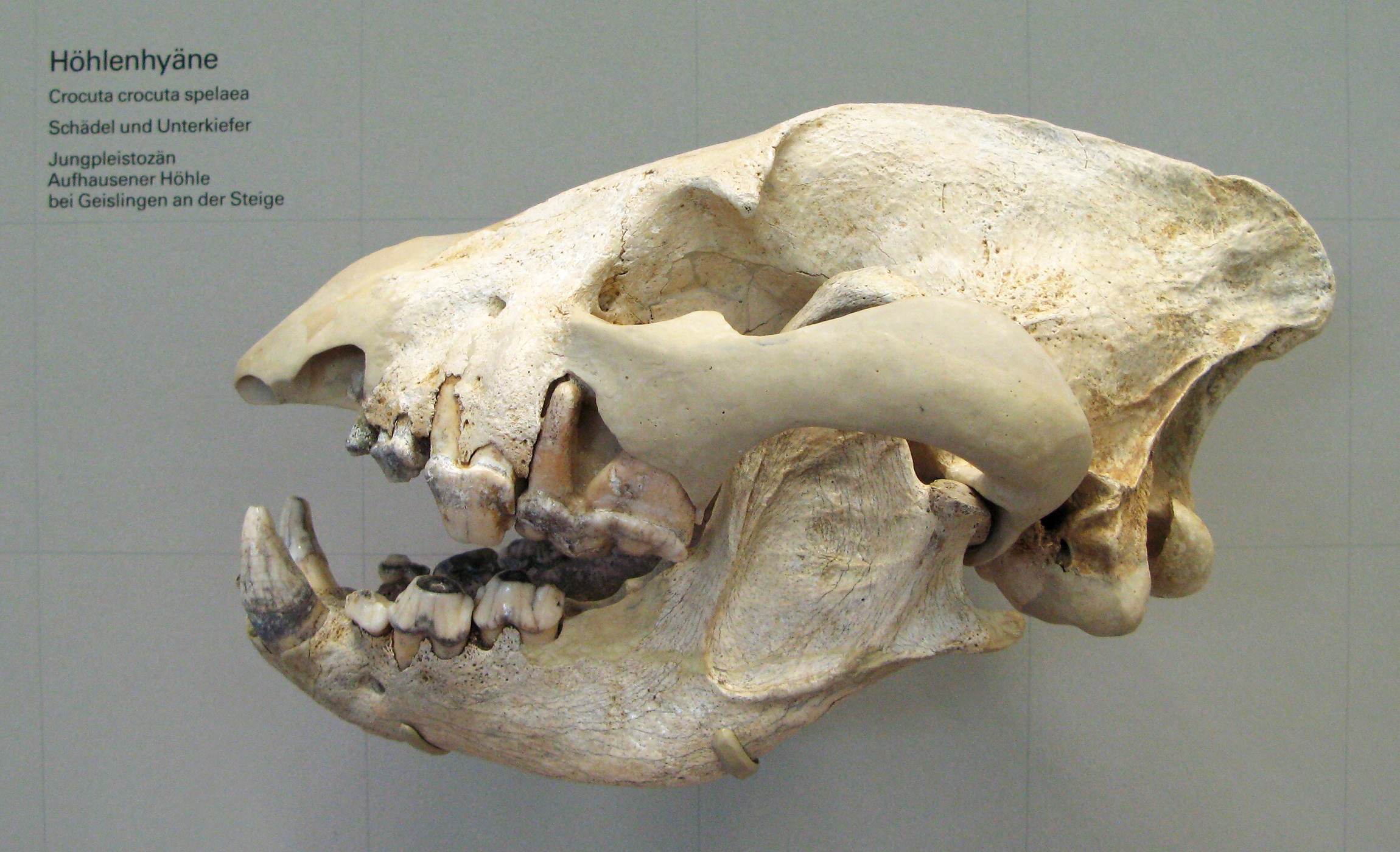 Cave hyena (Crocuta crocuta spelaea) - skull with lower jaw, late Pleistocene Locality: Aufhausener Höhle, Geislingen an der Steige, Baden-Württemberg, Germany Exposed: State Museum of Natural History Stuttgart